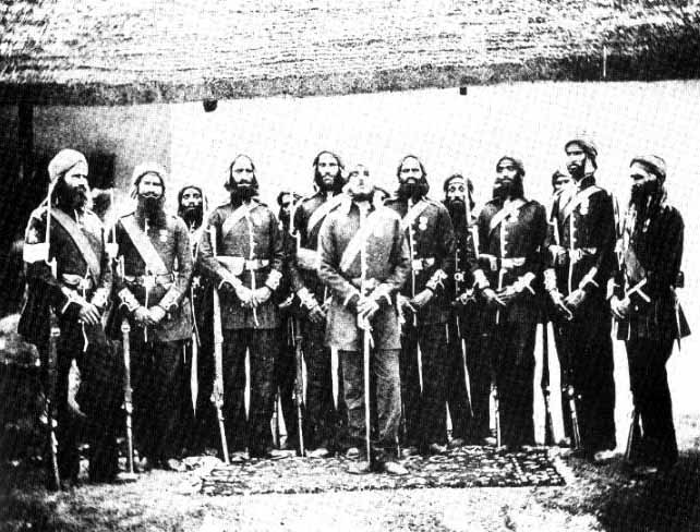 Men of the Loodiaah (Ludhiana) Sikh Regiment in China, Circa 1860